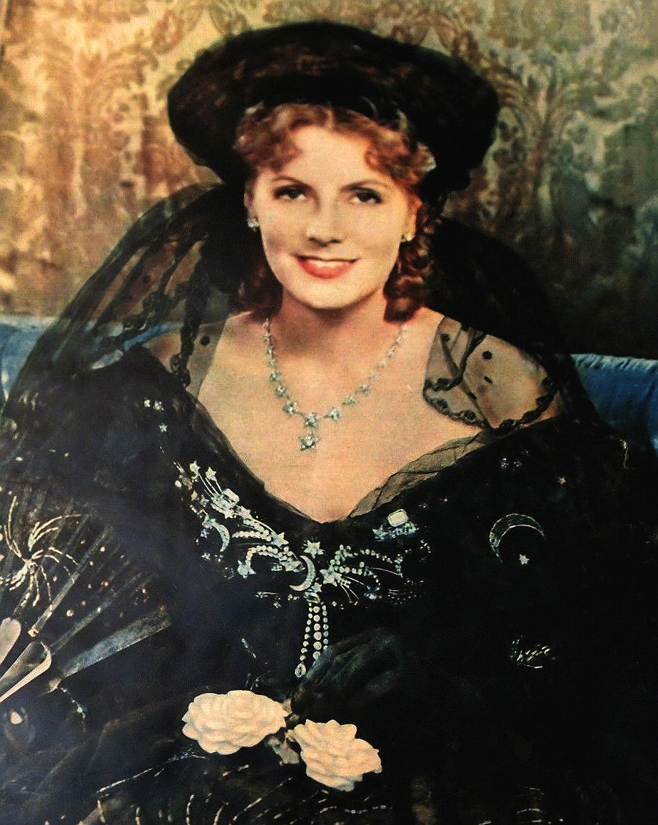 Photo of Greta Garbo from the front cover of the New York Sunday News magazine.